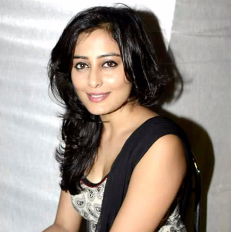 Nidhi Subbaiah at Jackky & Nidhi snapped promoting their film 'Ajab Gazabb Love'